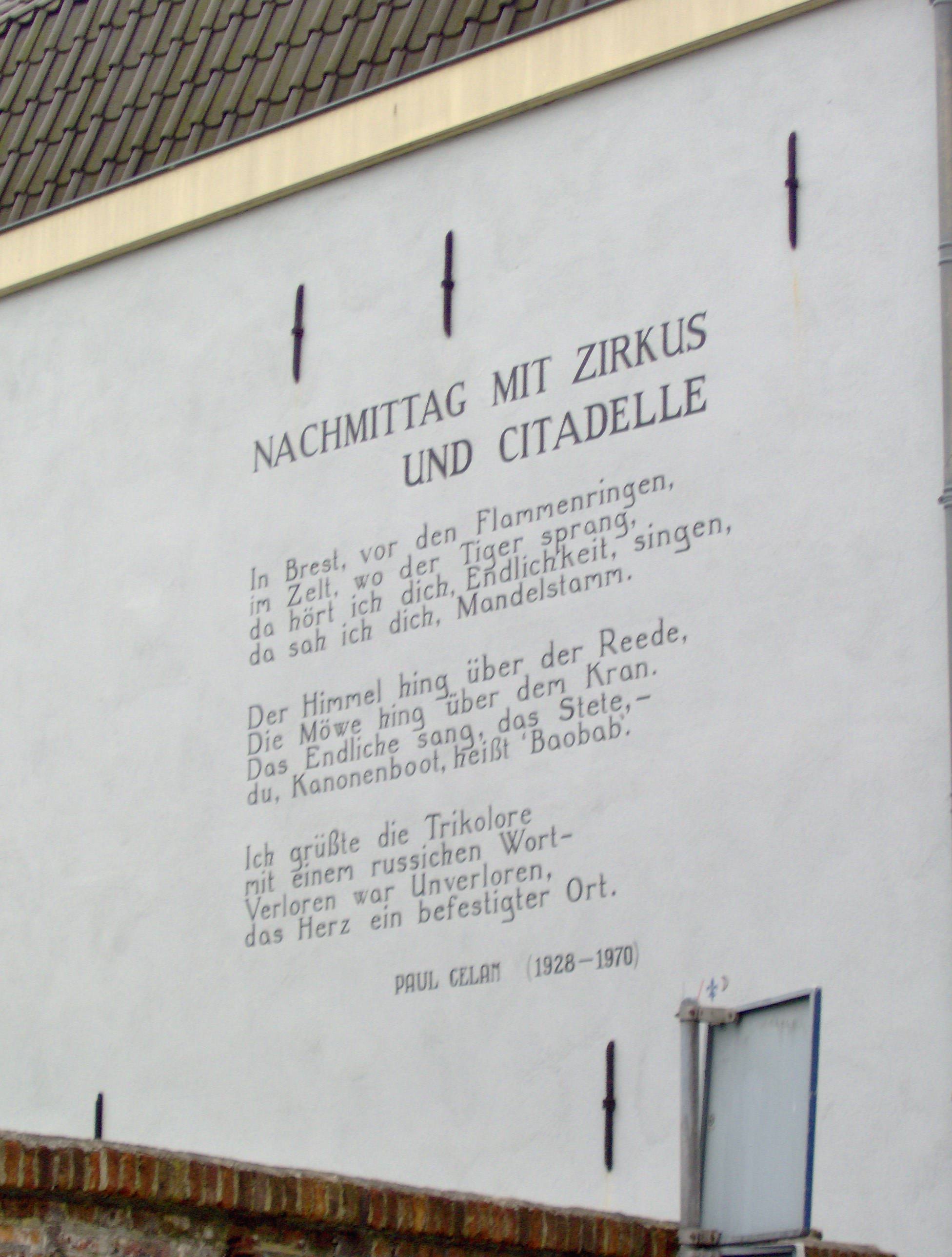 The poem Nachmittag mit Zirkus und Zitadelle (written as Citadelle by mistake) of the Rumanian poet Paul Celan on a wall of the building at the Middelweg 19, Leiden, The Netherlands